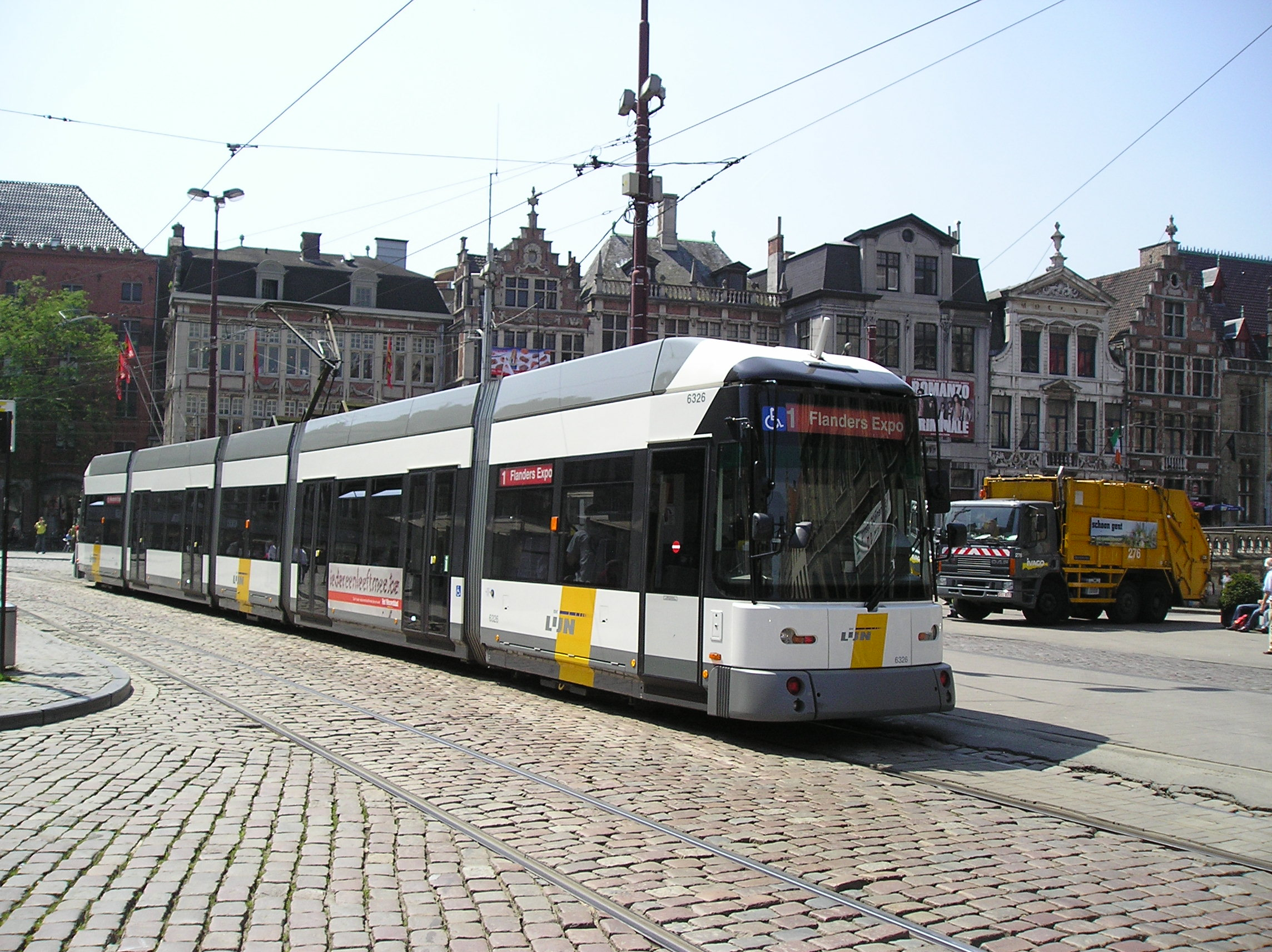 HermeLijn low-floor tram in Ghent, tram stop Korenkarkt.